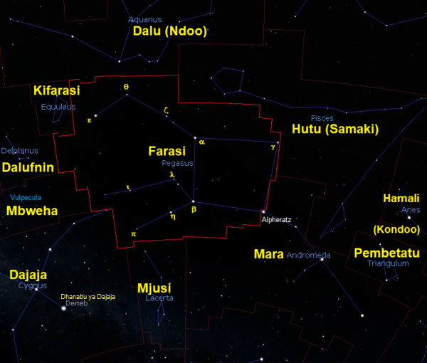 Constellation Pegasus as seen from Tanzania, Swahili labelled Kiswahili: Kiswahili: Kundinyota Farasi (Pegasus) jinsi inavyoonekana kutoka Tanzania, majina kwa Kiswahili